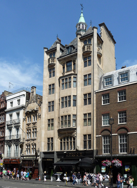 37-43 Whitehall